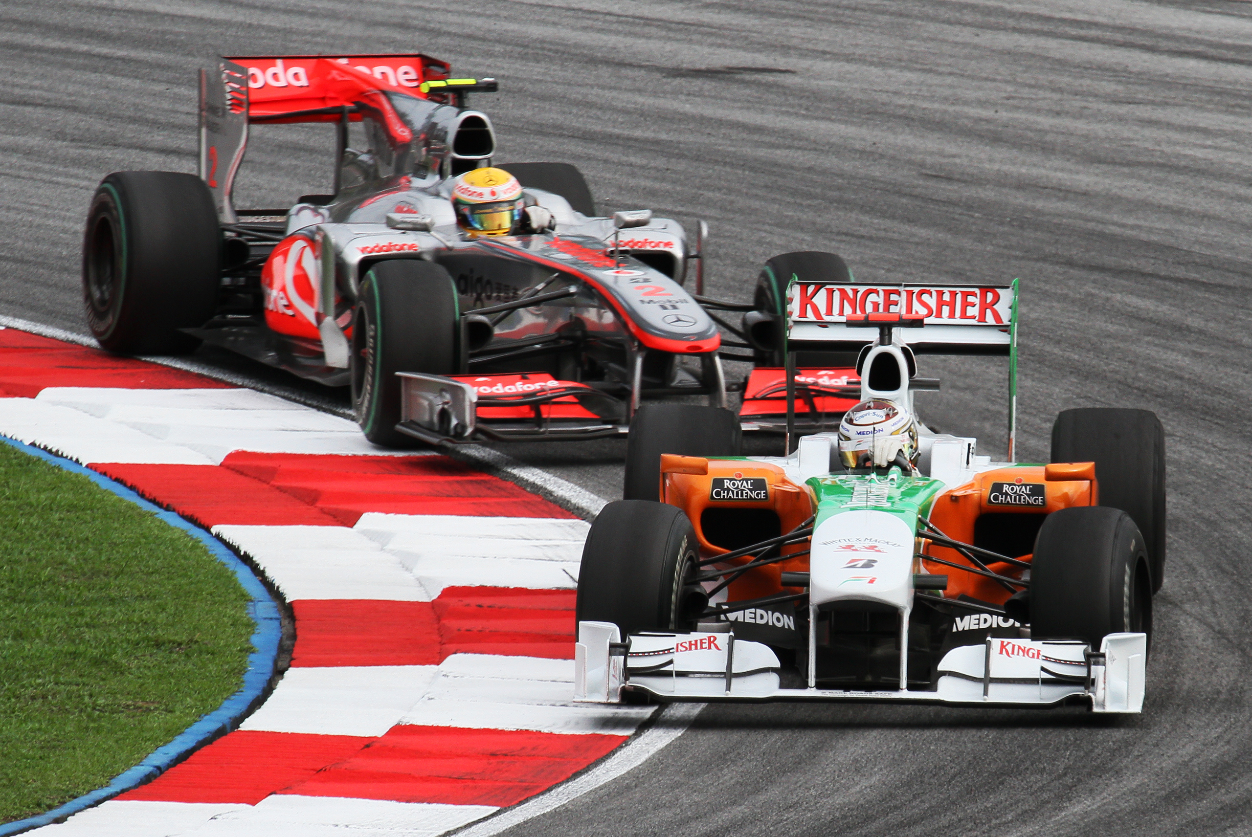 Formula One 2010 Rd.3 Malaysian GP: Adrian Sutil (Force India) leads Lewis Hamilton (McLaren)